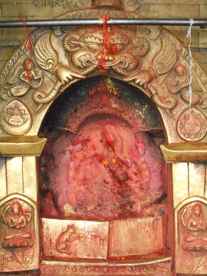 सुर्यविनायक मन्दिर